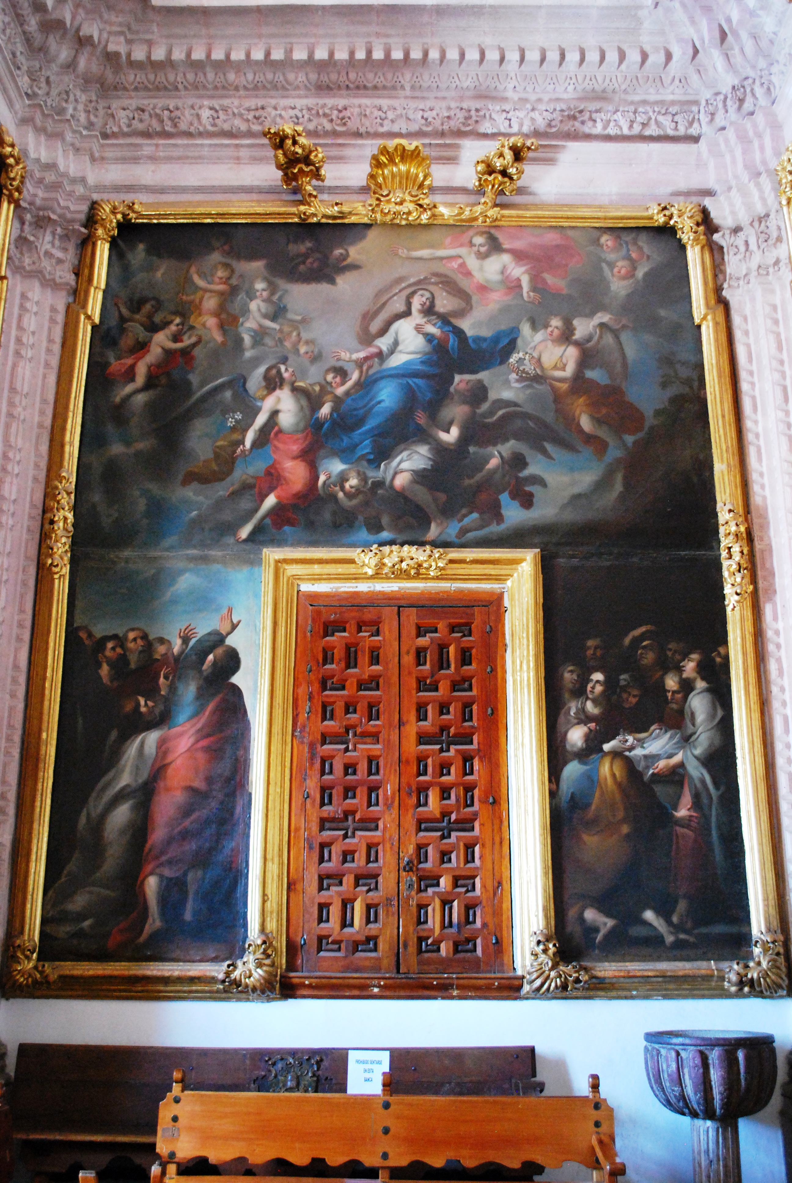 a painting of the Assumption of Mary by Cristobal Villalpando at the Santa Prisca Church in Taxco de Alarcón, Guerrero, Mexico